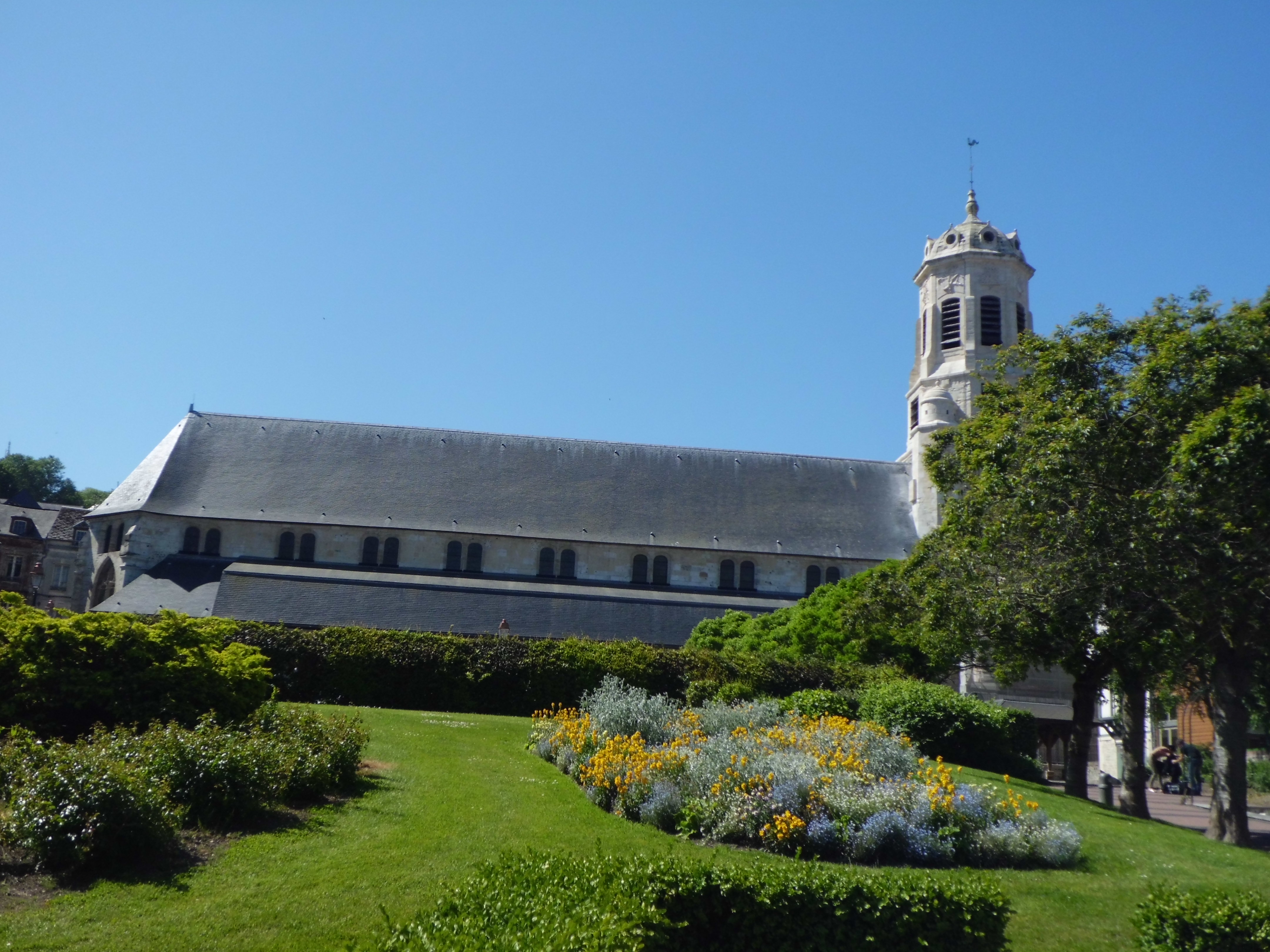 Saint-Leonard Church at Honfleur (Normandy)